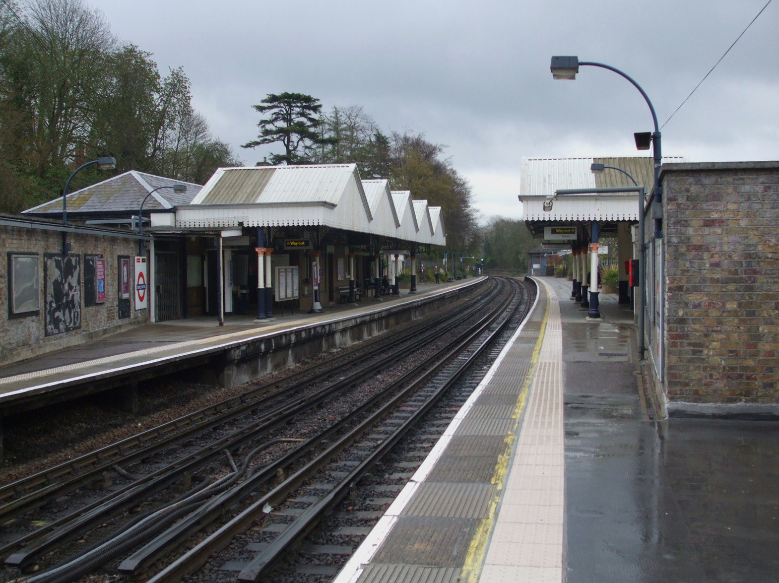 Chorleywood station platforms looking south